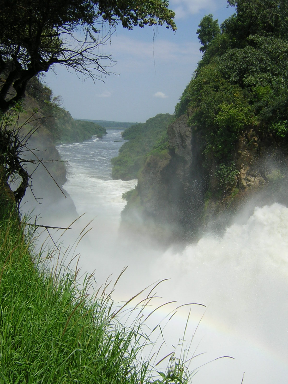 Murchison Falls, Uganda